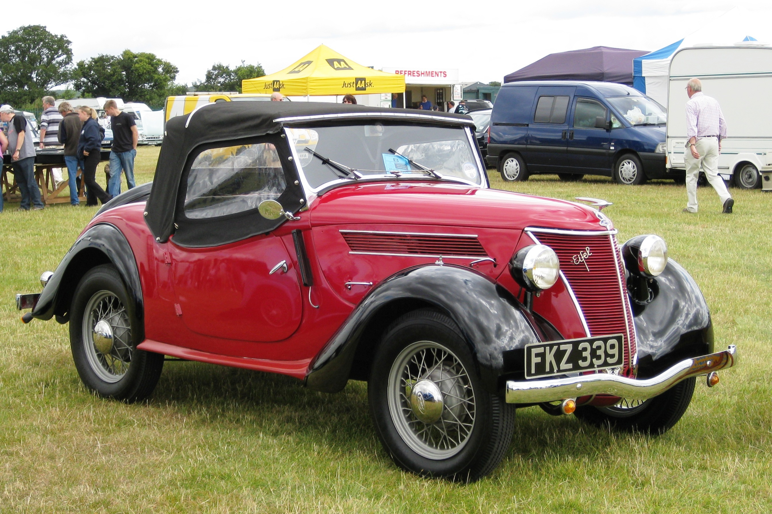 Ford Eifel (German manufactured equivalent of English Ford 8) with coupe body work and (I think) Irish license plate